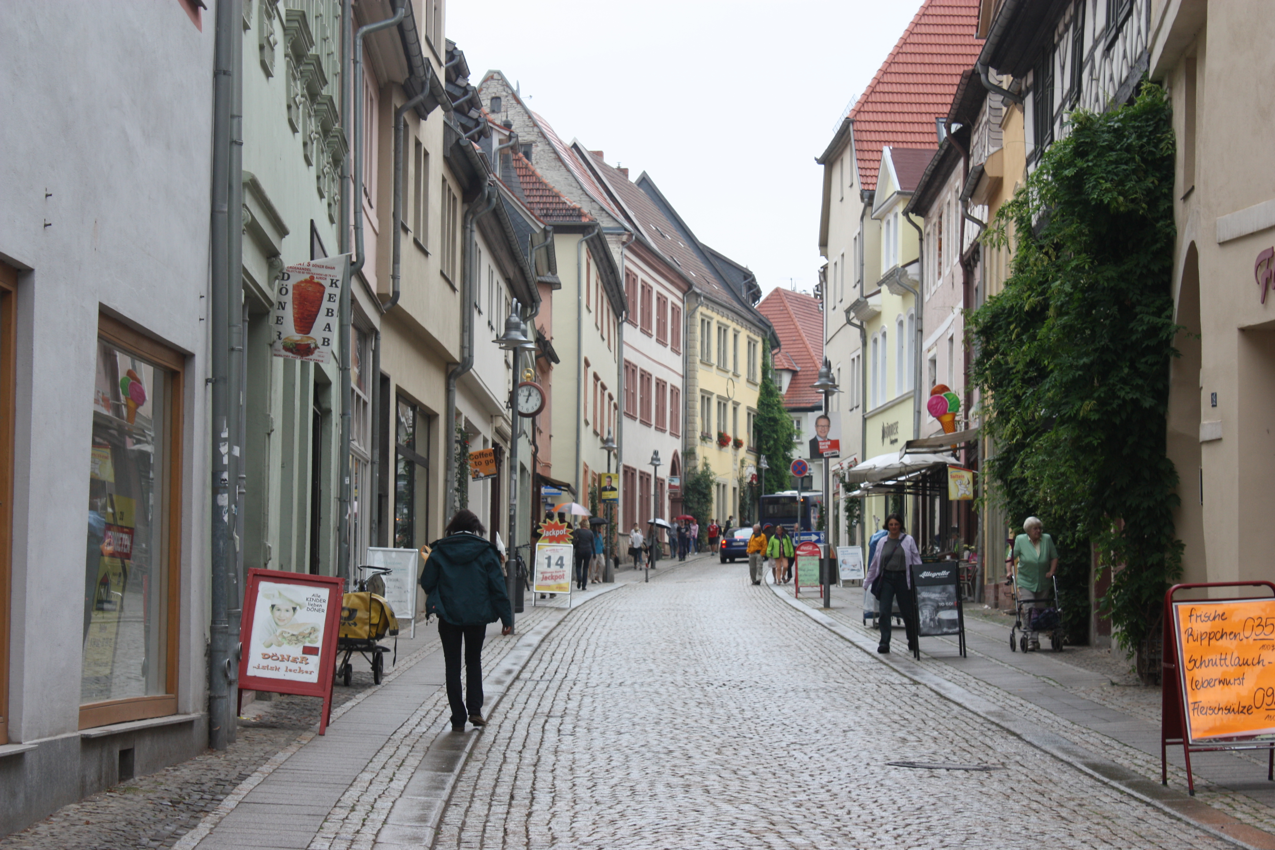 Sangerhausen, the eatern part of the Kylische Straße